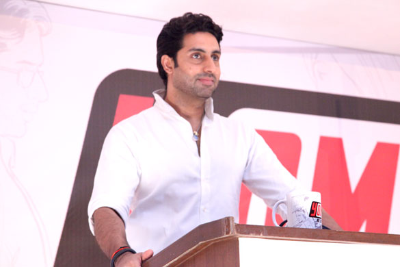 Abhishek Bachchan launch 'YOMICS'